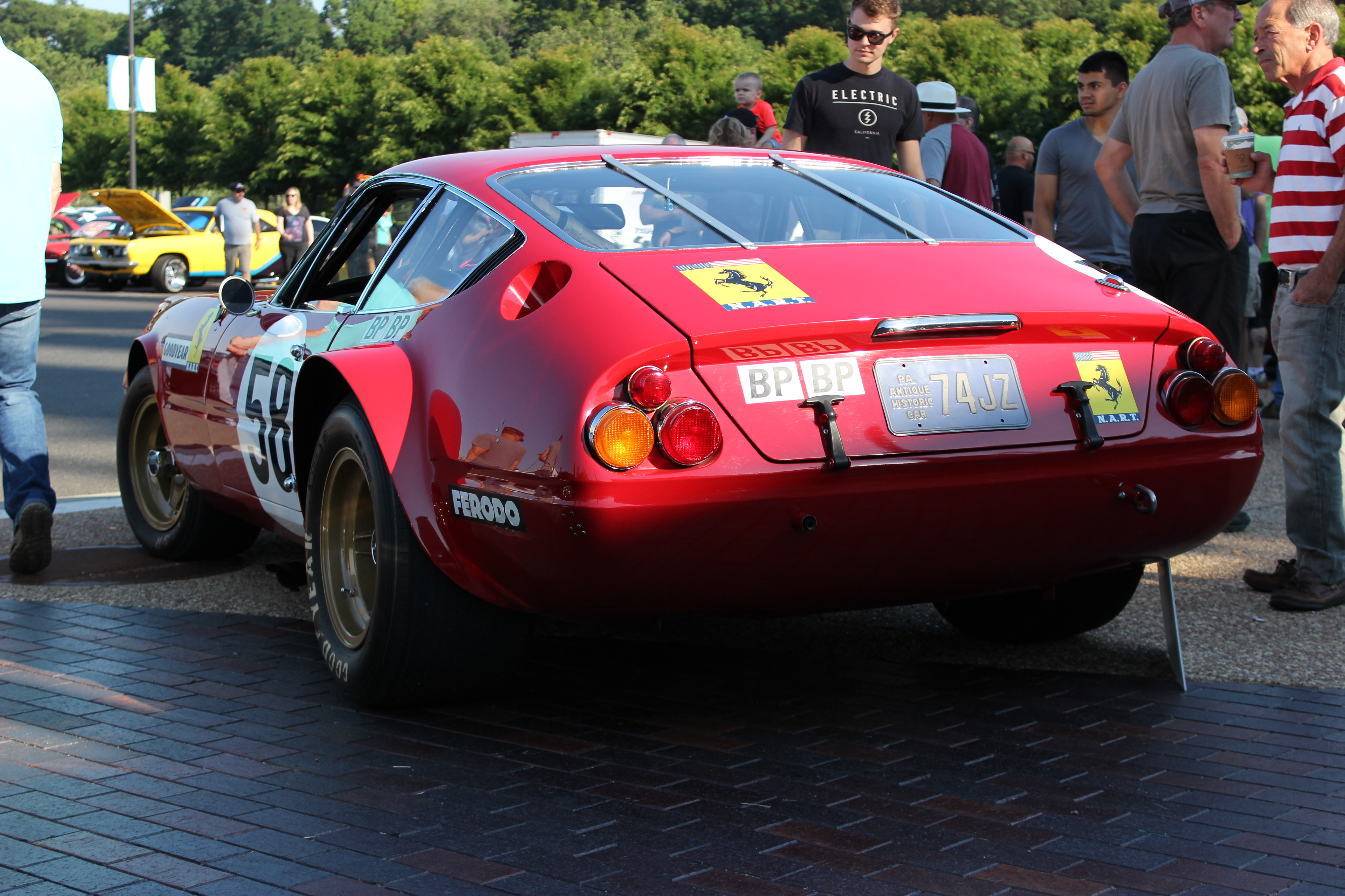 1969 Ferrari 365 GTB4 Daytona s/n 12467, here at the "Cars & Coffee" event at SteelStackst in Bethlehem, Pennsylvania, USA.